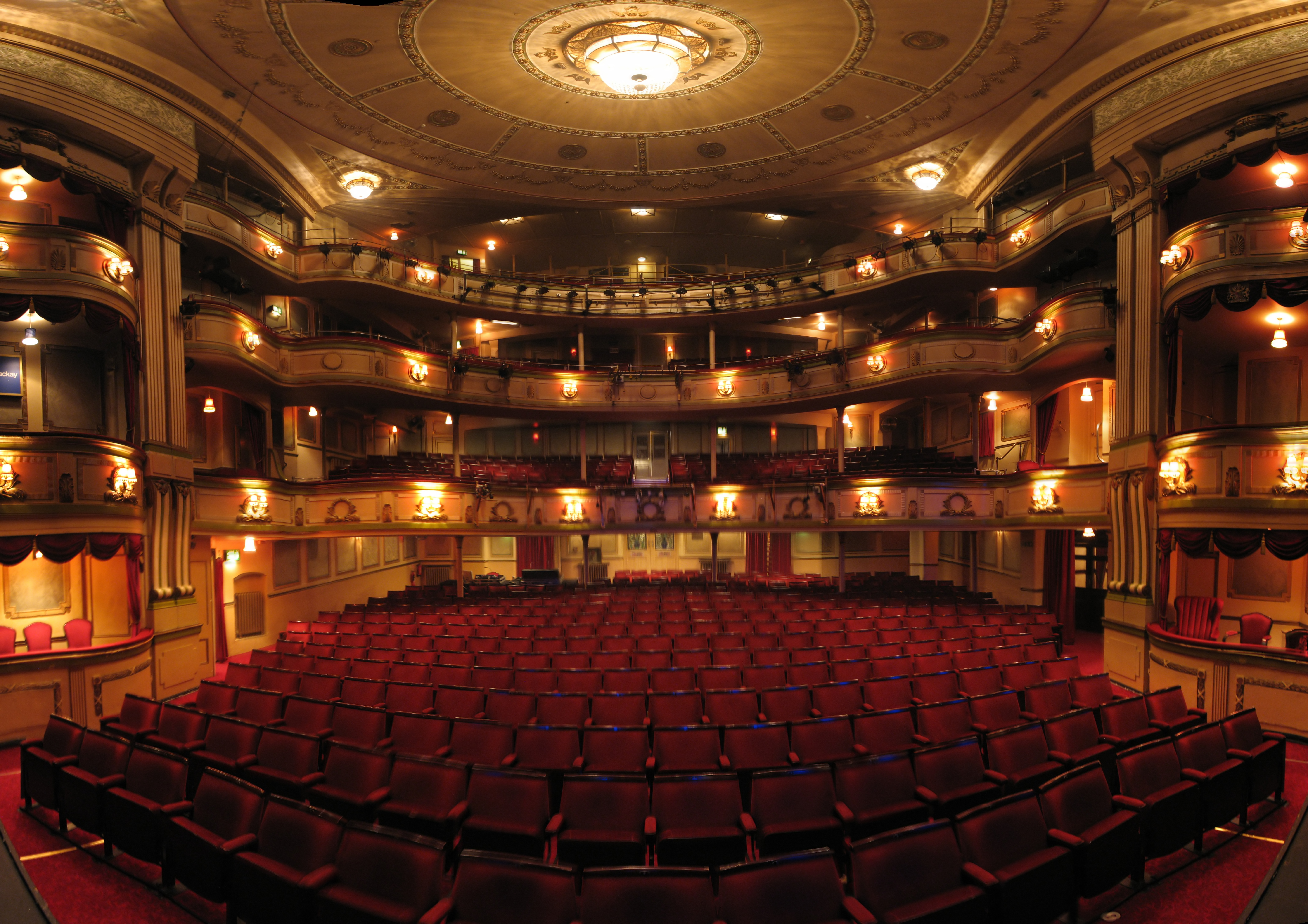 Photos taken on stage after "The Piano Men" concert on Wednesday November 28, 2007. This theatre celebrates its 200th anniversary this year! Assembled from 22 handheld photos using AutoStitch. Noise reduction by Neat Image.